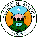 The offical town seal of Lincoln, Maine, created in 1979, by former town resident Marc Delle, for the town's sesquicentennial.